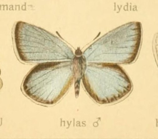 Polyommatus dorylas Valid name for hylas